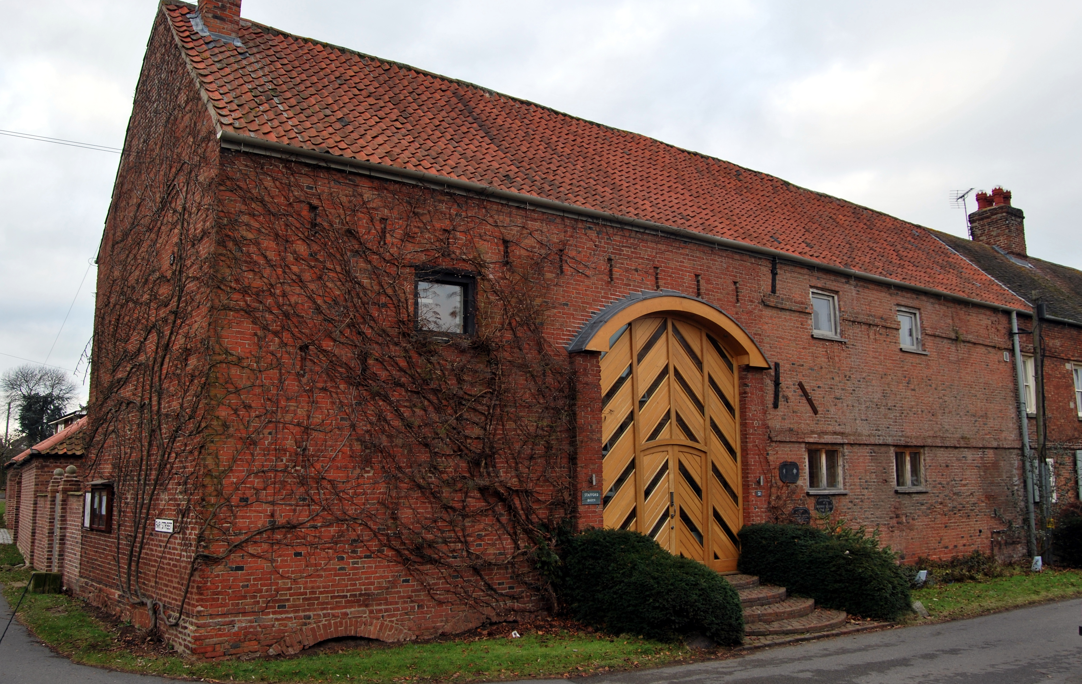 Bradmore, Nottinghamshire. Old barn converted to modern usage.